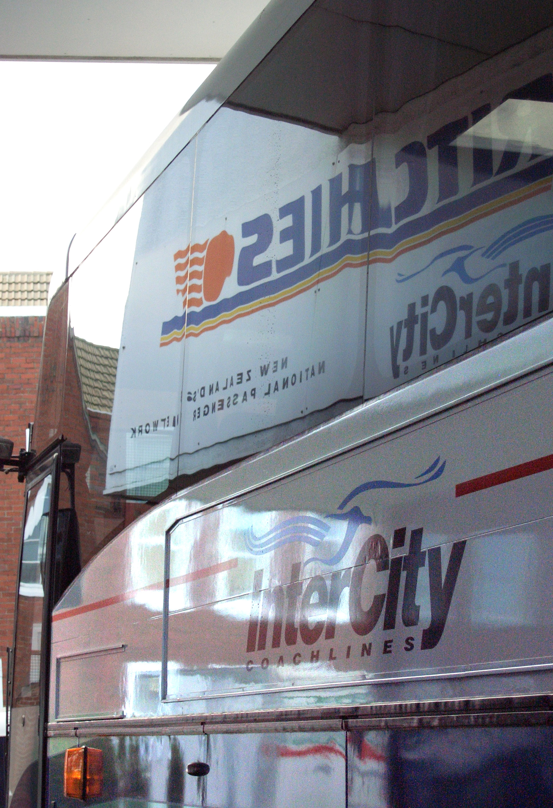 Ritchies Transport Holdings is a significant shareholder in Intercity Coachlines. Volvo B12 coach at Ritchies Intercity depot in Dunedin, New Zealand.